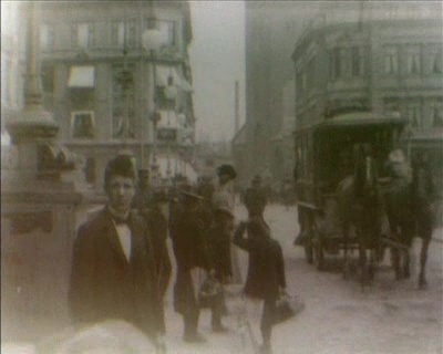 Screenshot from the 1902 film Sct. Clemensbro i Aarhus directed by Peter Elfelt. The film shows the life on the bridge Sankt Clemens Bro in Aarhus in Denmark.